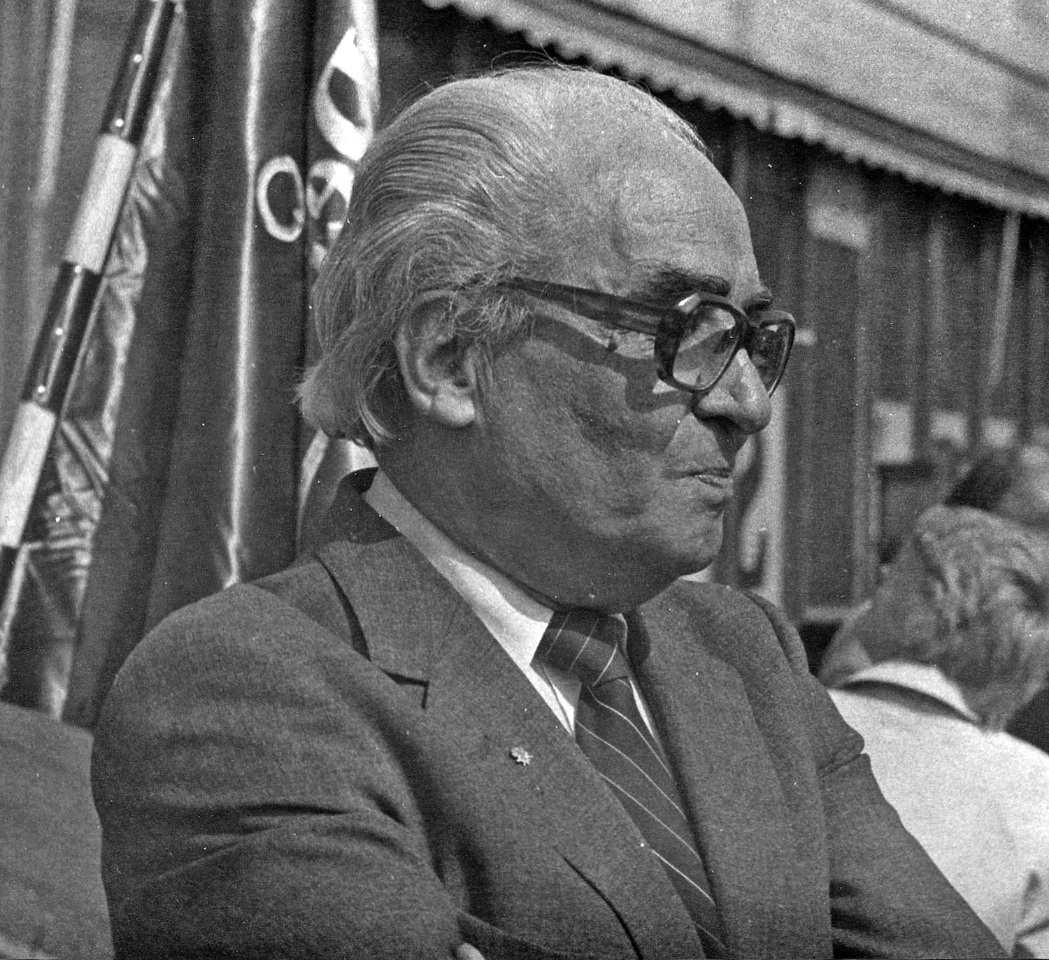 Gunnar Nilsson (1922–1997) at the May demonstration in Örebro. Chairman of the Swedish Trade Union Confederation 1973–1983.